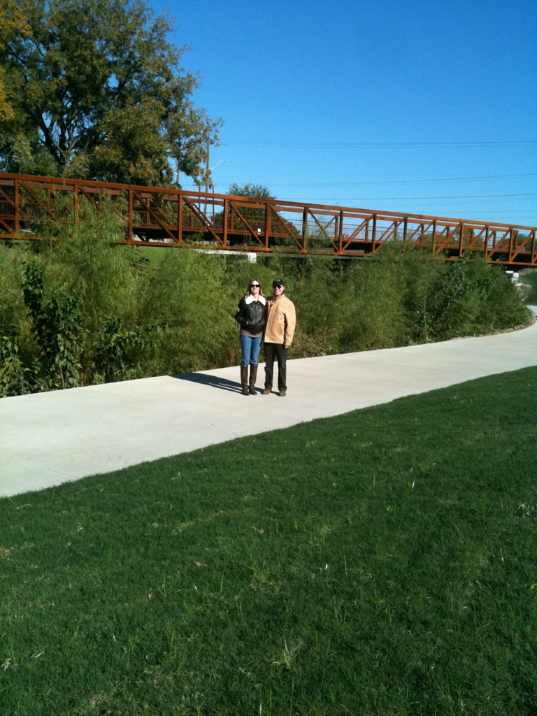 Trinity Strand Trail in Dallas, Texas